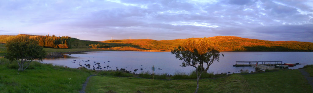 Panaorama of beautiful Reynisvatn, a fishing lake on the outskirts of Reykjavik, Iceland